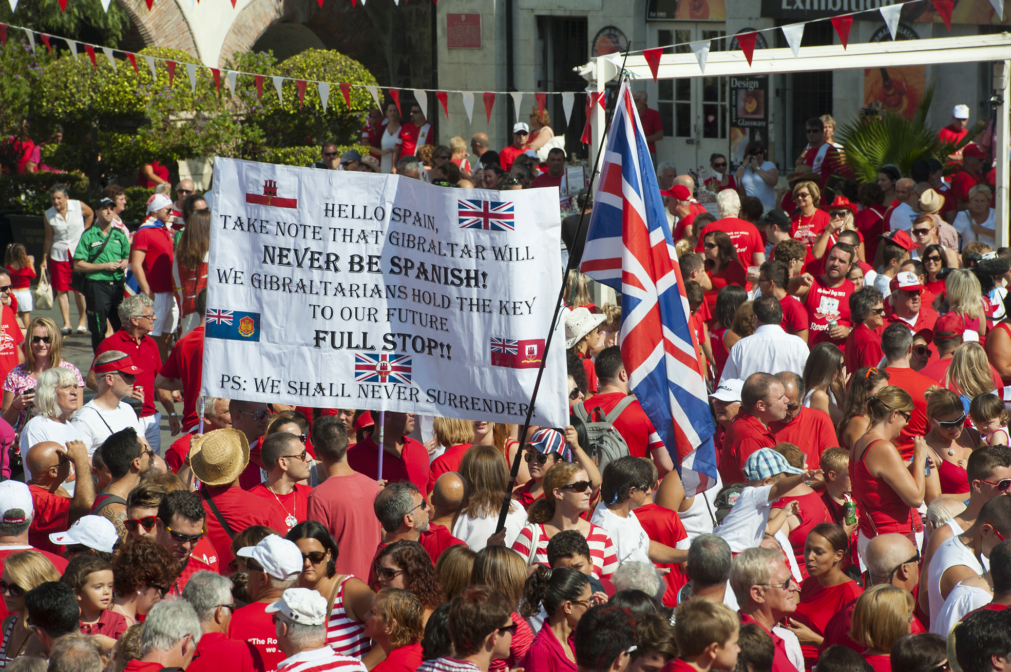 Gibraltar National Day_011